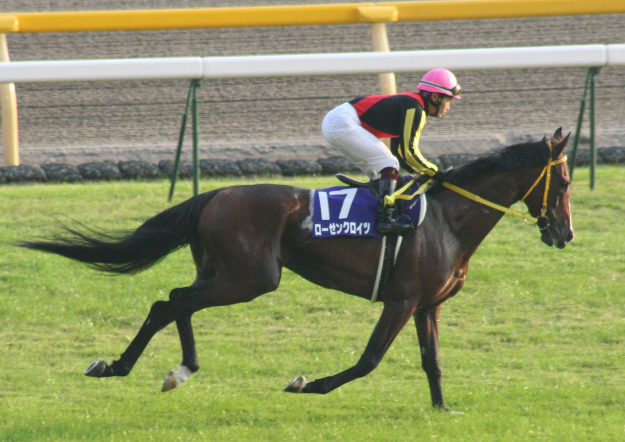 Rosenkreuz (Tokyo Racecourse)